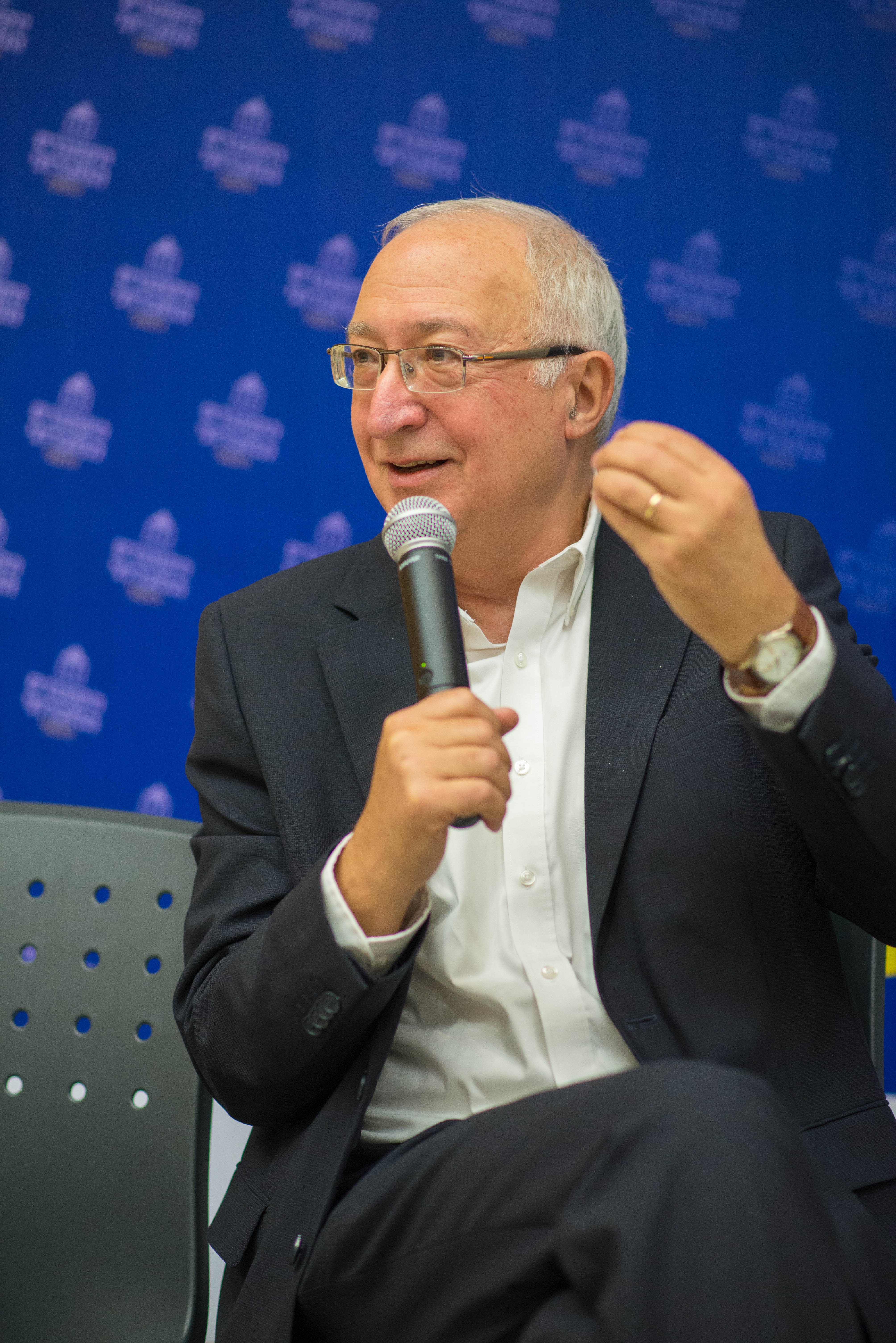 Manuel Trajtenberg